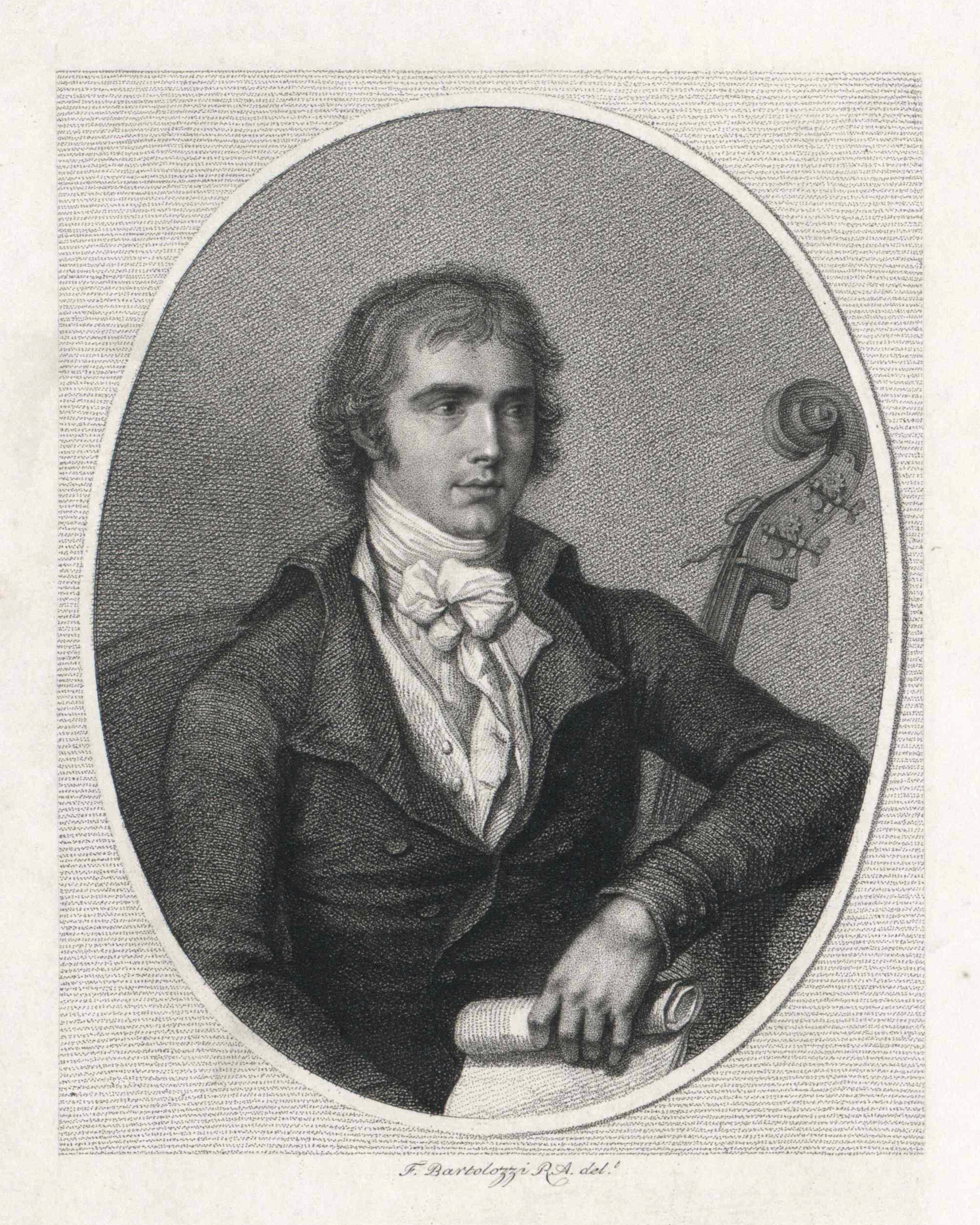 Engraving of Domenico Dragonetti as a young man with his Gasparo da Salo bass by Francesco Bartolozzi (1728–1815). It is signed F. Bartolozzi RA. From the Houska collection, and formerly in the collection of Raymond Elgar. Another example is housed in the Royal College of Music, London.